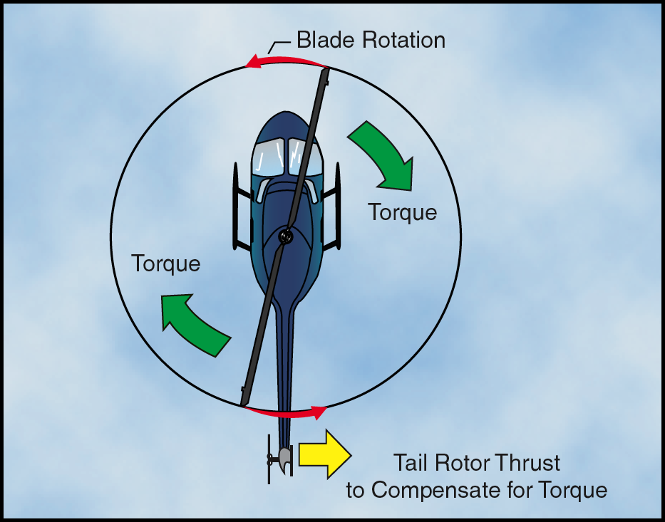 A diagram of forces related to a tail rotor anti-torque system.